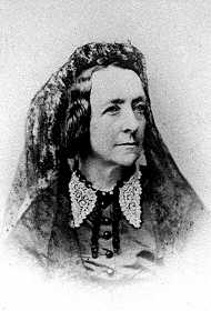 A Lady Of Letters: Baroness Jemima Von Tautphoeus